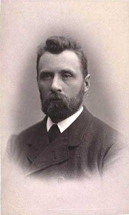 Director of the Danish National Bank, politician, MP Johannes Peter Lauridsen (1847-1920)